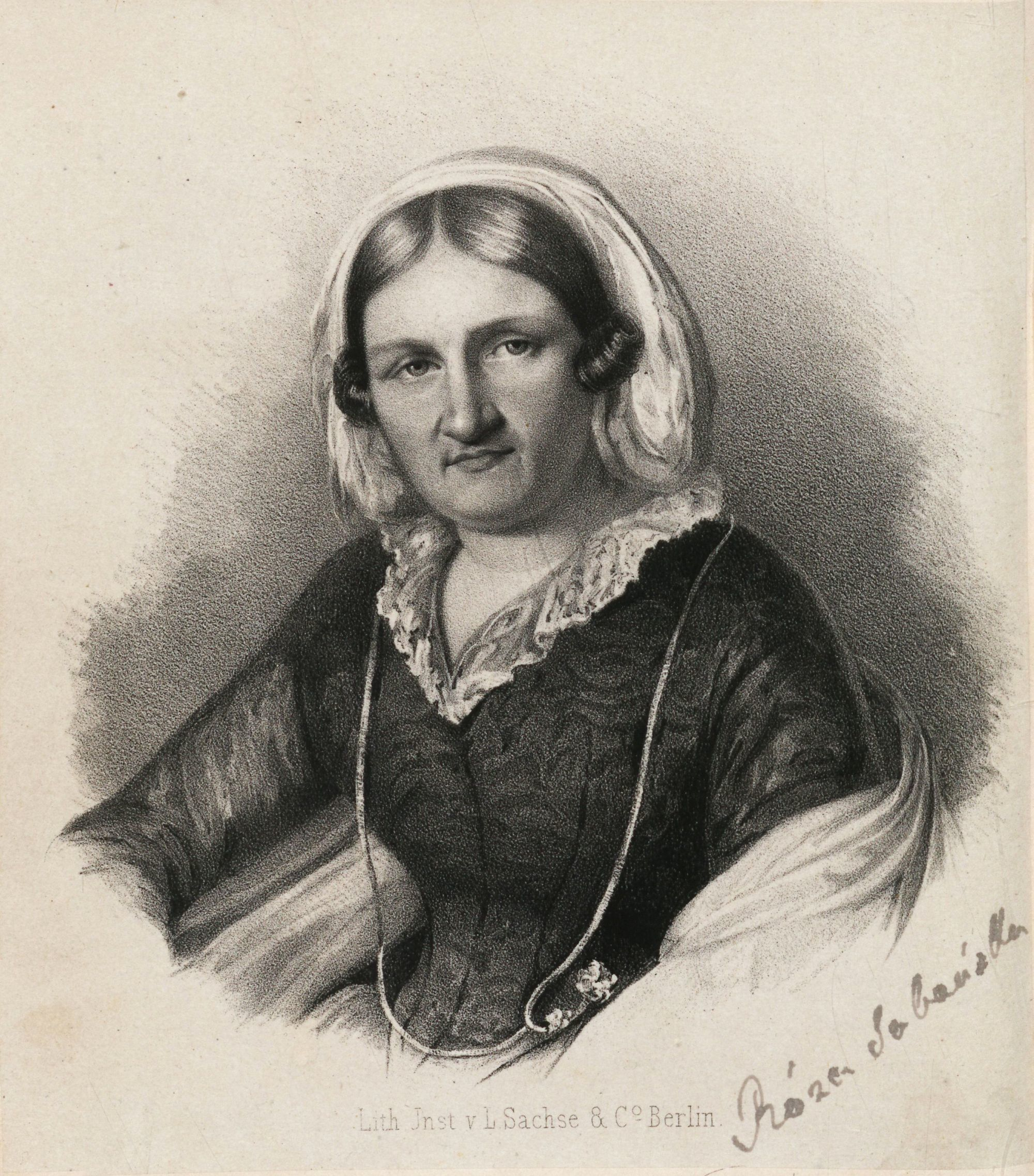 Etching of Rozalia Lubienska c. 1835